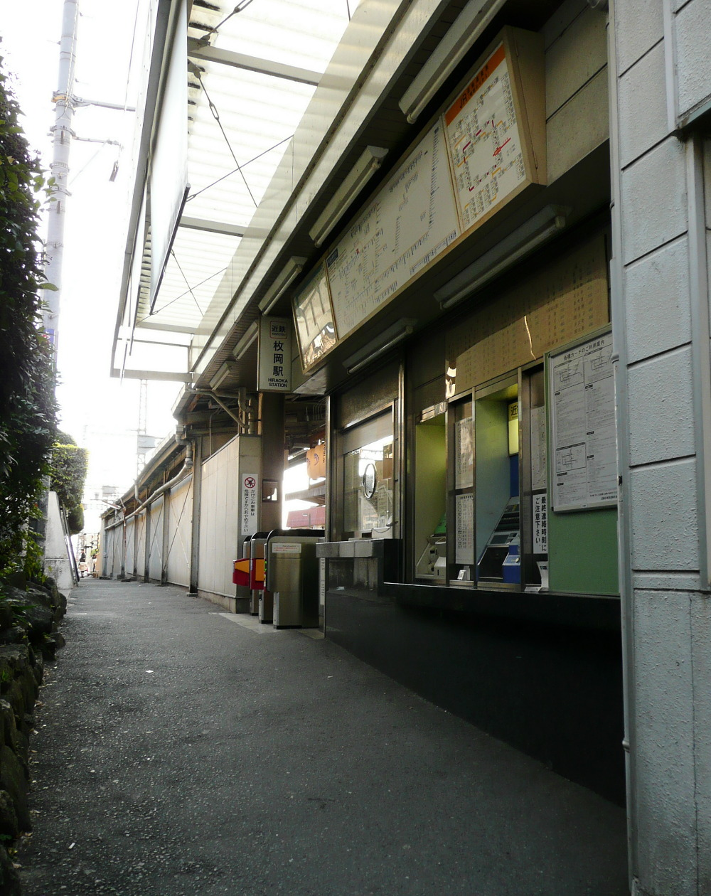 Kinki Nippon Railway,Nara Line,Hiraoka Station east entrance. /近鉄奈良線駅枚岡駅近鉄難波方面入口